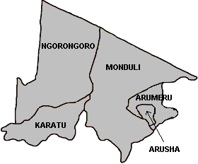 Map of Arusha, Tanzania from Andrew Coe (en.WP)